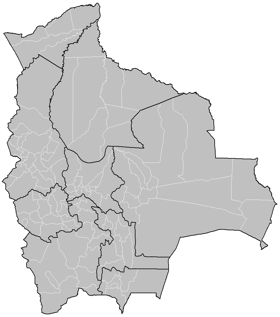 Map of the provinces of Bolivia. Created by Rarelibra 14:39, 10 April 2007 (UTC) for public domain use, using MapInfo Professional v8.5 and various mapping resources.